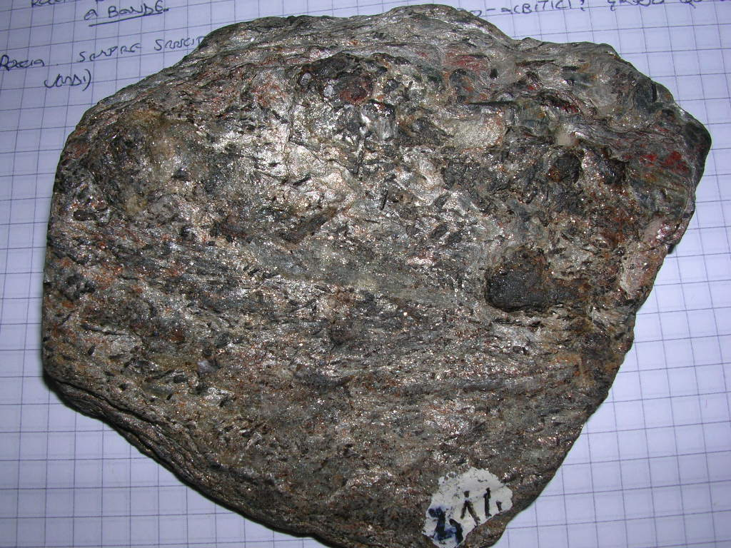 Garnet-staurolite mica-schist (muscovite mica). The protolyth was a pelite which has undergone a medium-grade metamorphism.